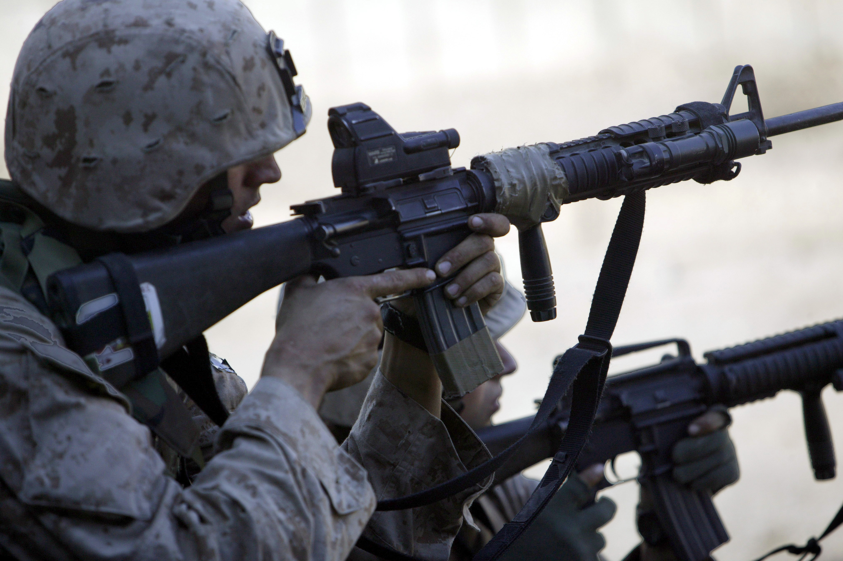 Original Caption: Lance Corporal Jeromy S. Pilon, a 22-year-old native of Spokane, Washington and an assault man with 3rd Platoon, Company I, 3rd Battalion, 5th Marine Regiment, looks through the sights on his M16A4 rifle for any possible insurgents in Fallujah, Iraq, December 11, 2004. Company I, also known as “Diesel,” recently started one of the final pushes through their sector to ensure the safety of Fallujah’s citizens, who are expected to return soon. Photo by: Lance Corporal Miguel A. Carrasco Jr. - Photo ID: 2004121981534 - Submitting Unit: 1st Marine Division - Photo Date: 12/10/2004 Read the story associated with this photo This Image has been cleared for release. Equipment includes: M16A4, ITL MARS sight, MARPAT desert camo pattern